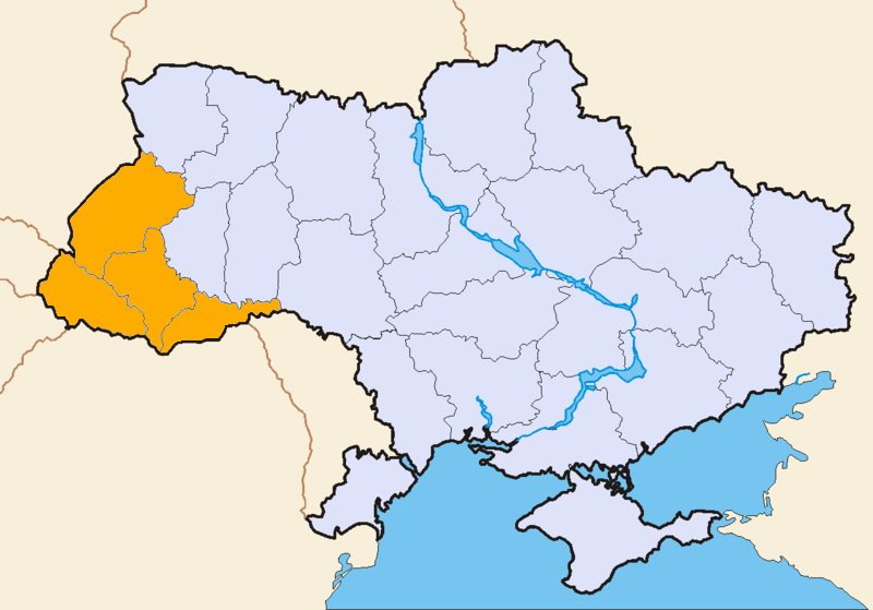 Map of Ukraine political Karpatskyi raion